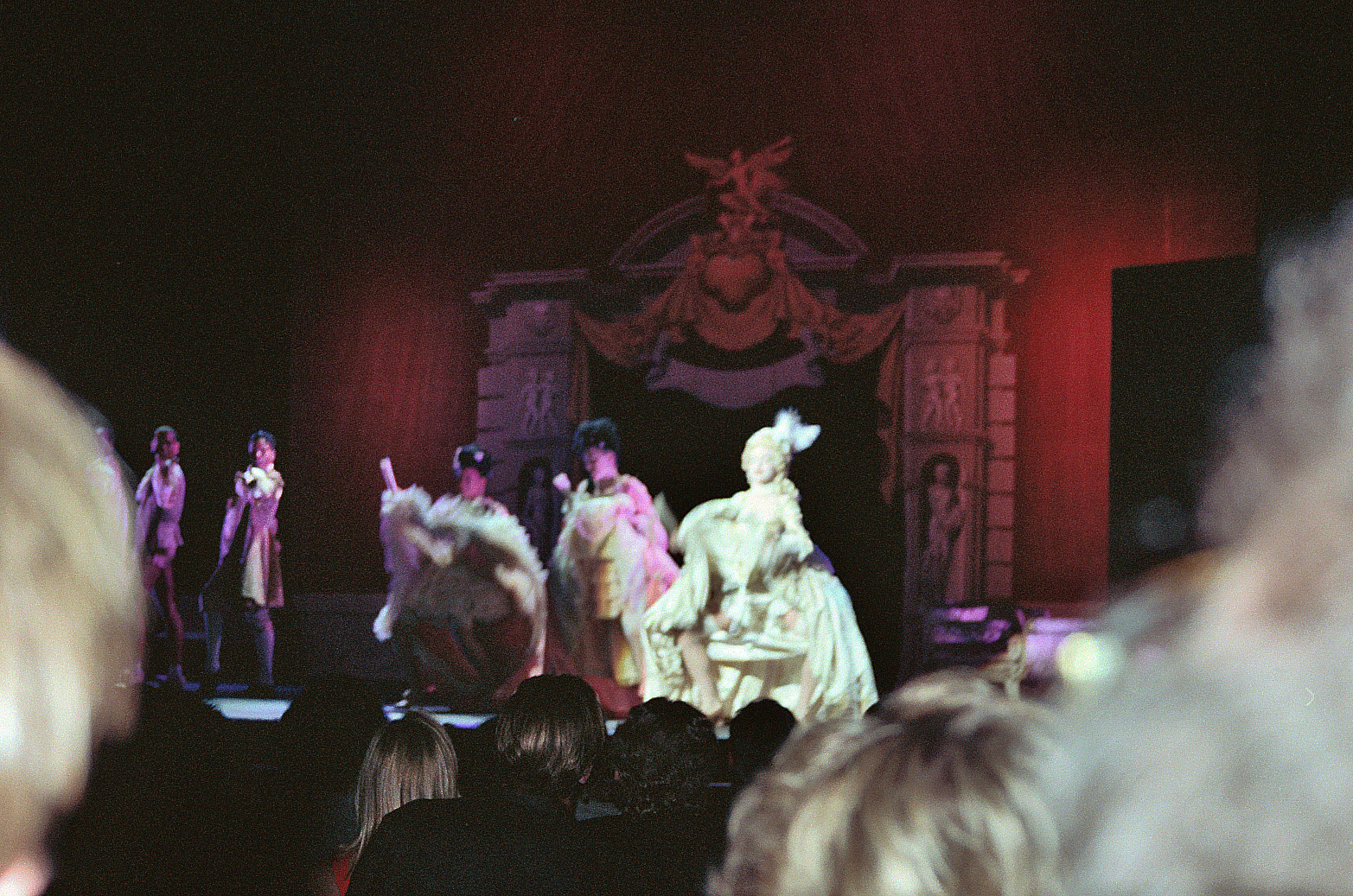 Madonna performing "VOGUE" on stage at the Wiltern Theater, Los Angeles - September 7, 1990 - as part of an APLA (AIDS Project Los Angeles) benefit.